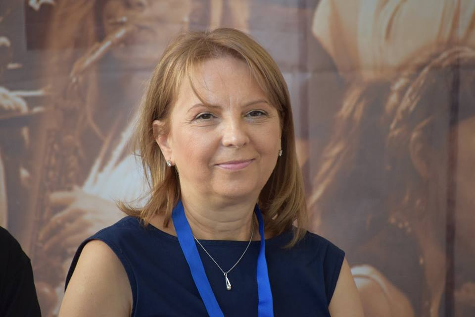 Biljana Krstić at the Belgrade promotion of Nishwille Festival, 2016